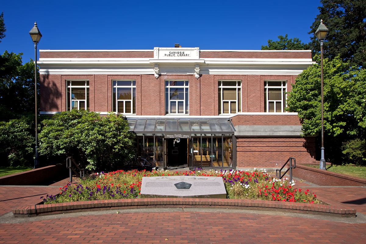 The Centralia Timberland Library is in the same location as the original Carnegie library which was built in 1913. It was remodeled in 1977-78.